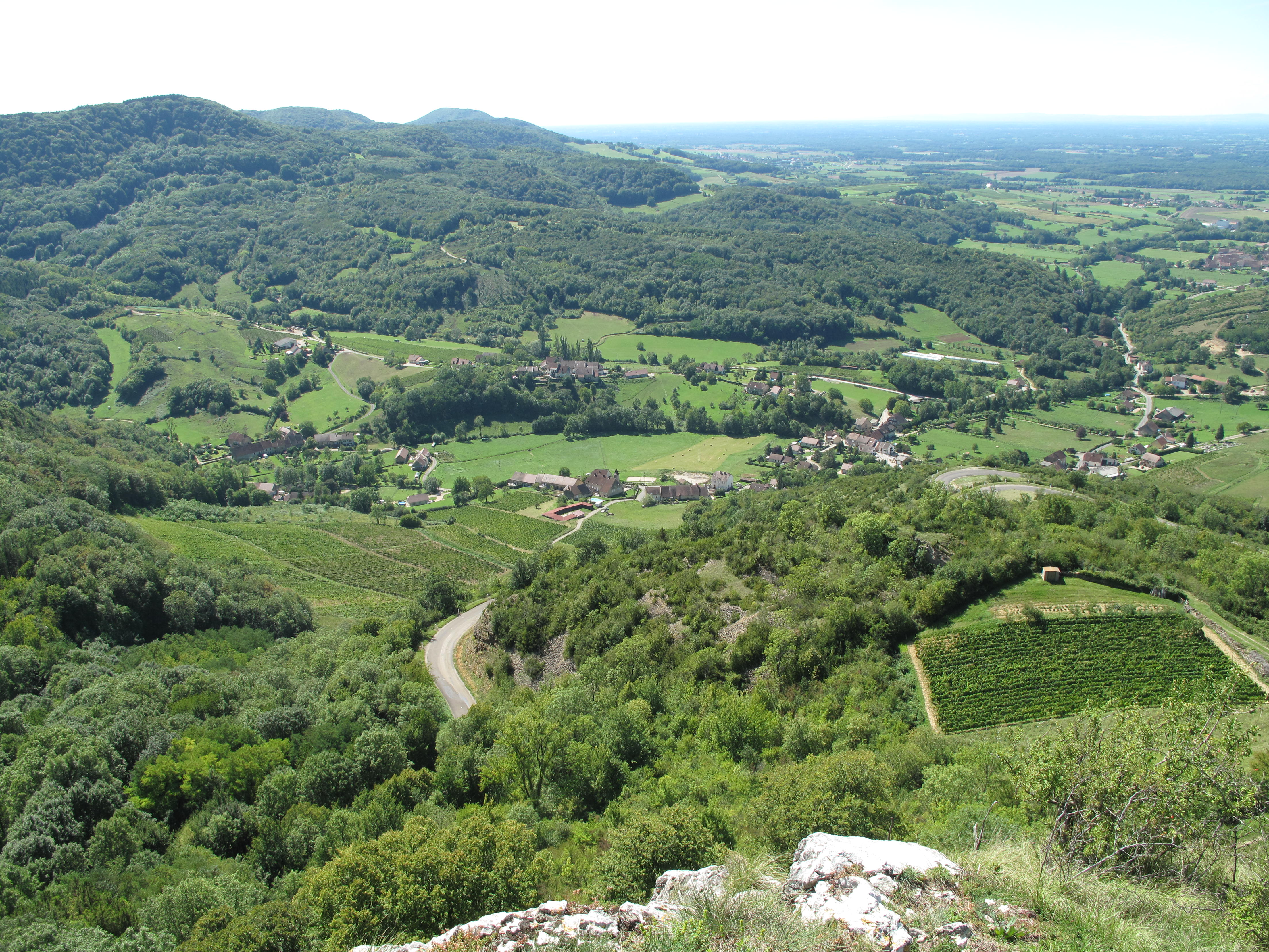 The first heights of the Jura mountain, seen from the village of Saint-Laurent-la-Roche (Jura, France).